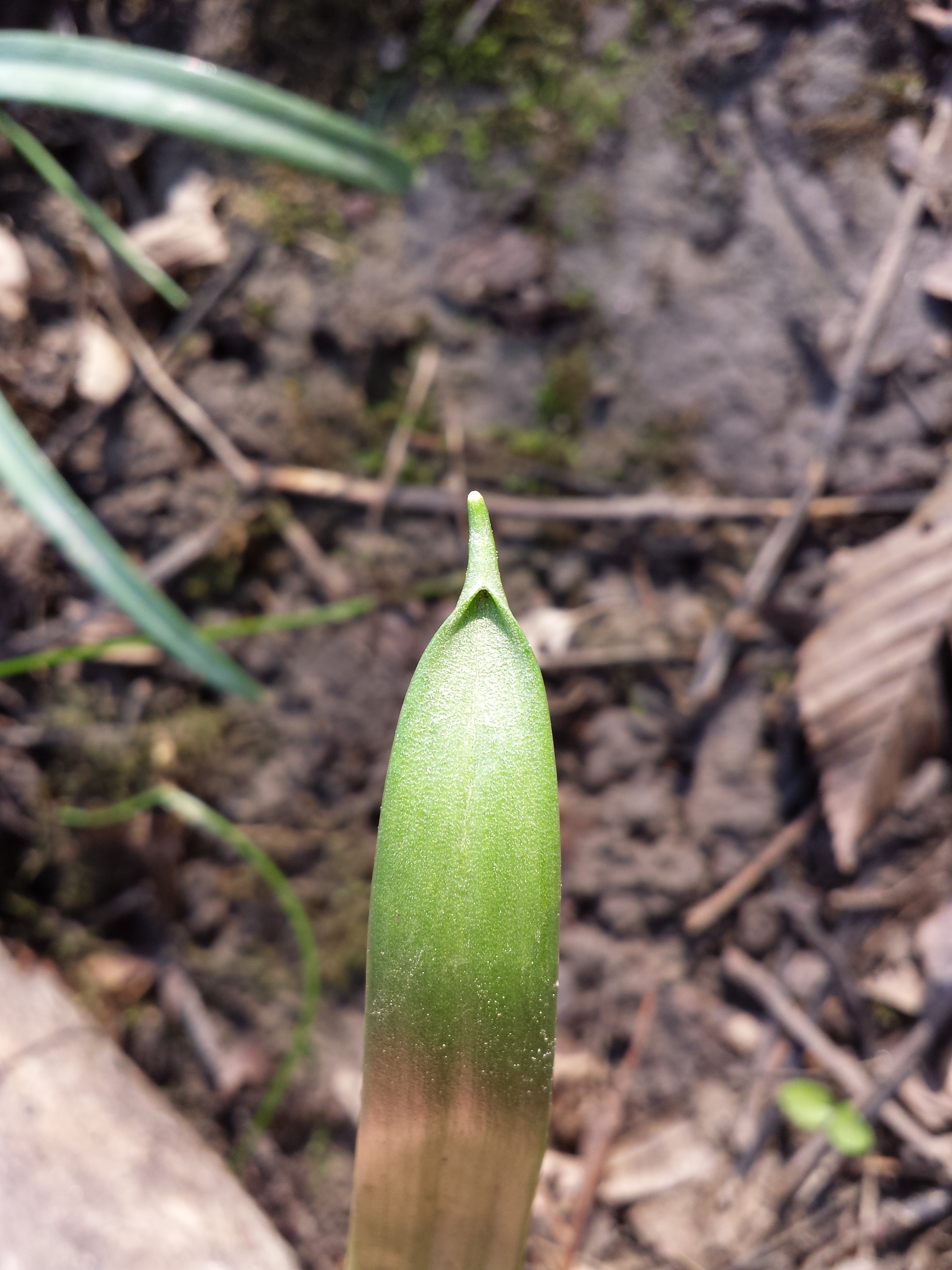 Ground leaf with hood-like tip Taxonym: Gagea lutea ss Fischer et al. EfÖLS 2008 ISBN 978-3-85474-187-9 Location: Kreuttal, district Mistelbach, Lower Austria - ca. 200 m a.s.l. Habitat: floodplain forest